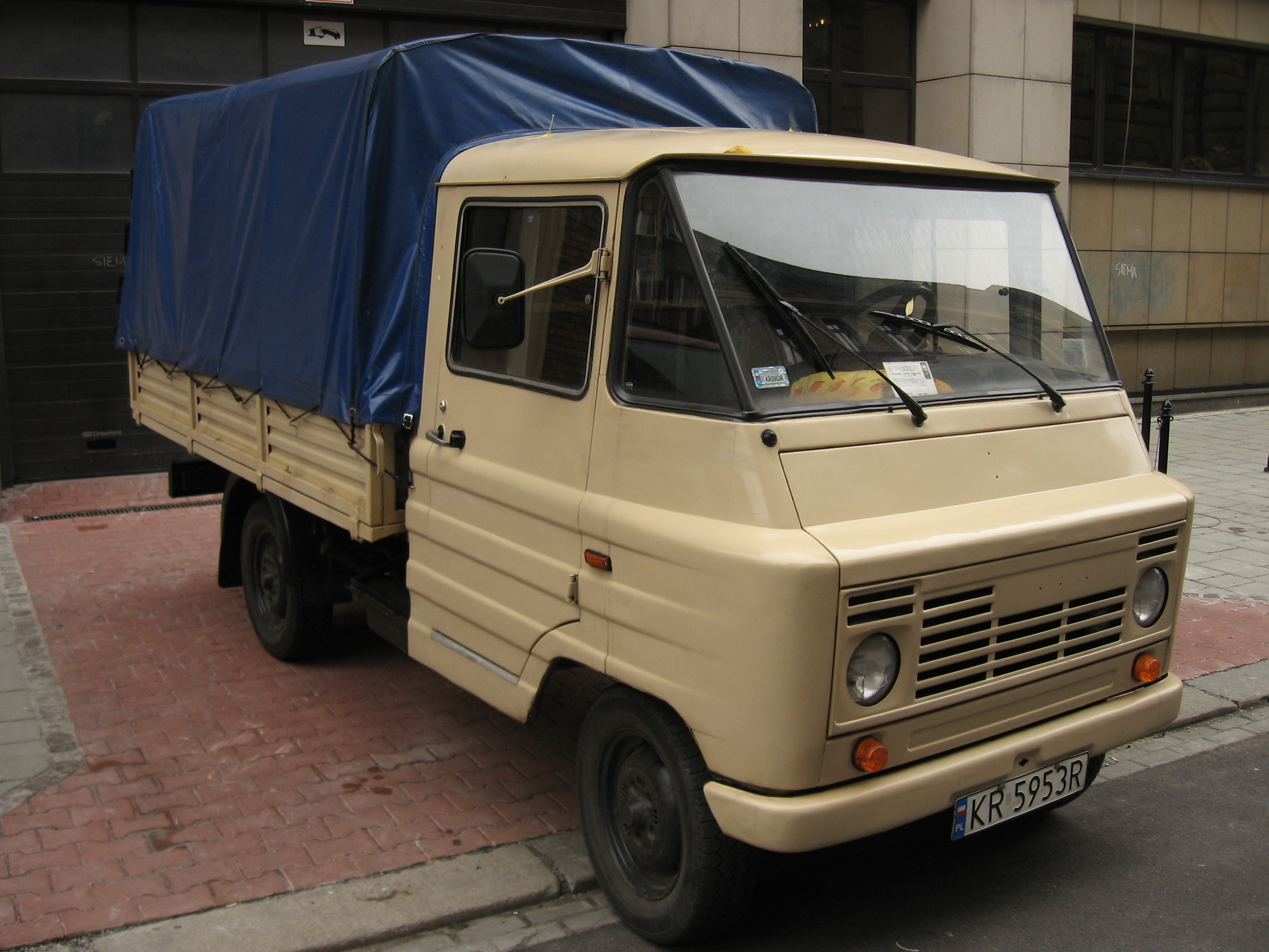 FSC Żuk A-11 B of Jan Matejko Academy of Fine Arts on Ignacego Paderewskiego street in Kraków.